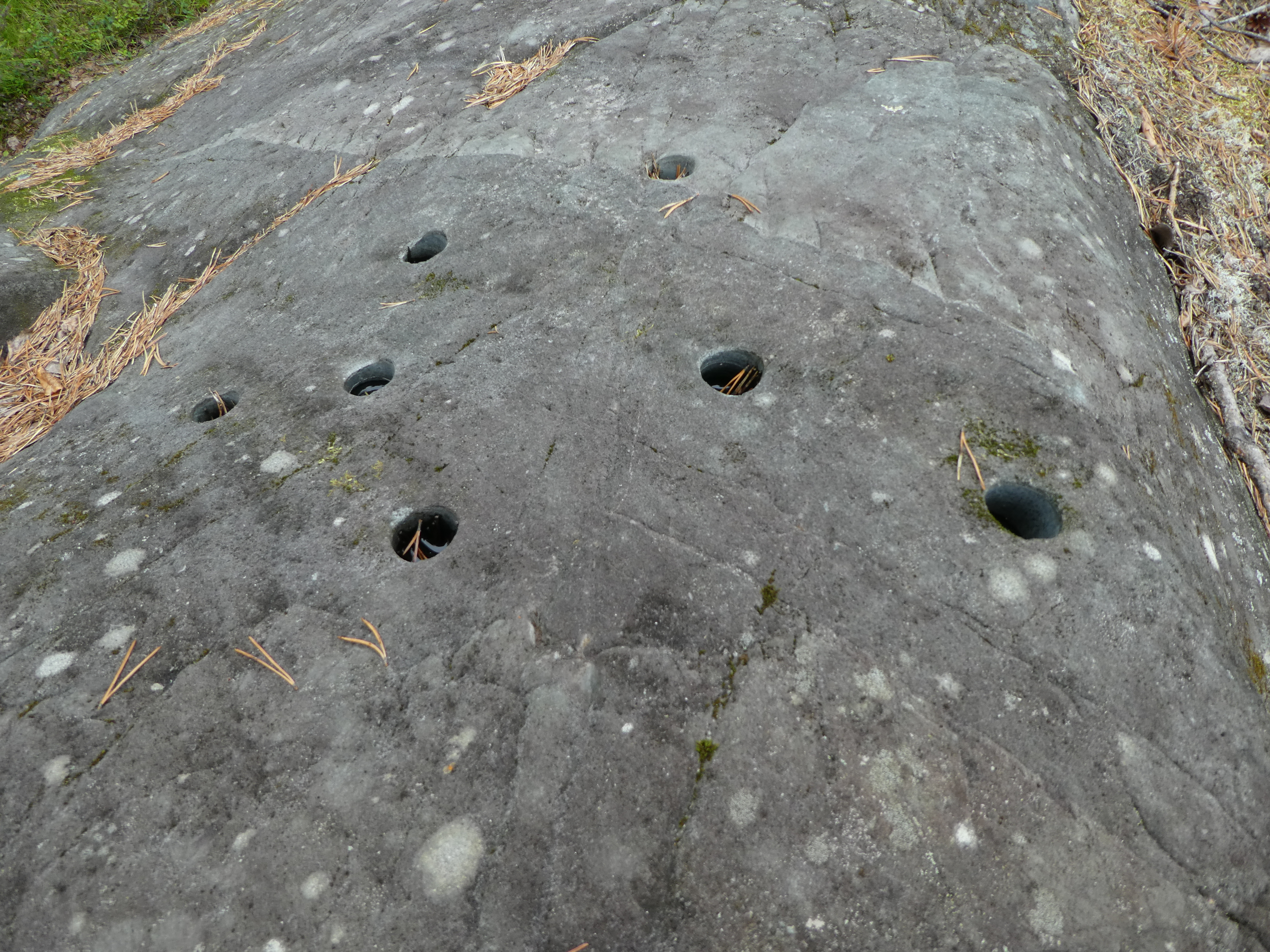 Ophiolite stone, Kajaani